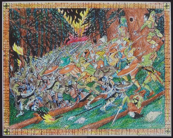 Battle Under the Trees. The Elves of Mirkwood are attacked from Dol Guldur (Scene from J. R. R. Tolkien's novels).